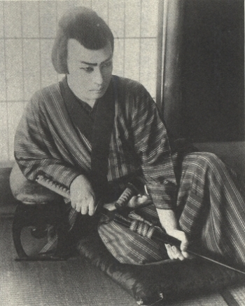 Utaemon Ichikawa in 1925 Japanese movie Kurokamijigoku（Black hair hell）.